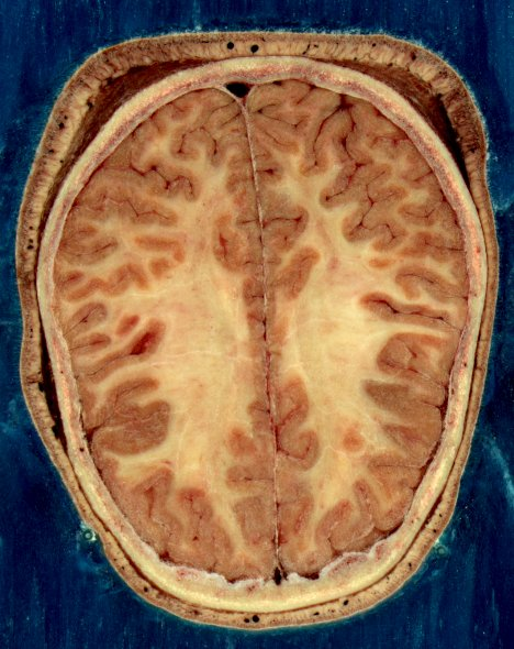 A horizontal slice of the head of an adult female, from the Visible Human project. For this project, a cadaver was frozen and then sliced into thin sections, which were photographed at high resolution. This section shows the cerebral cortex and underlying white matter.